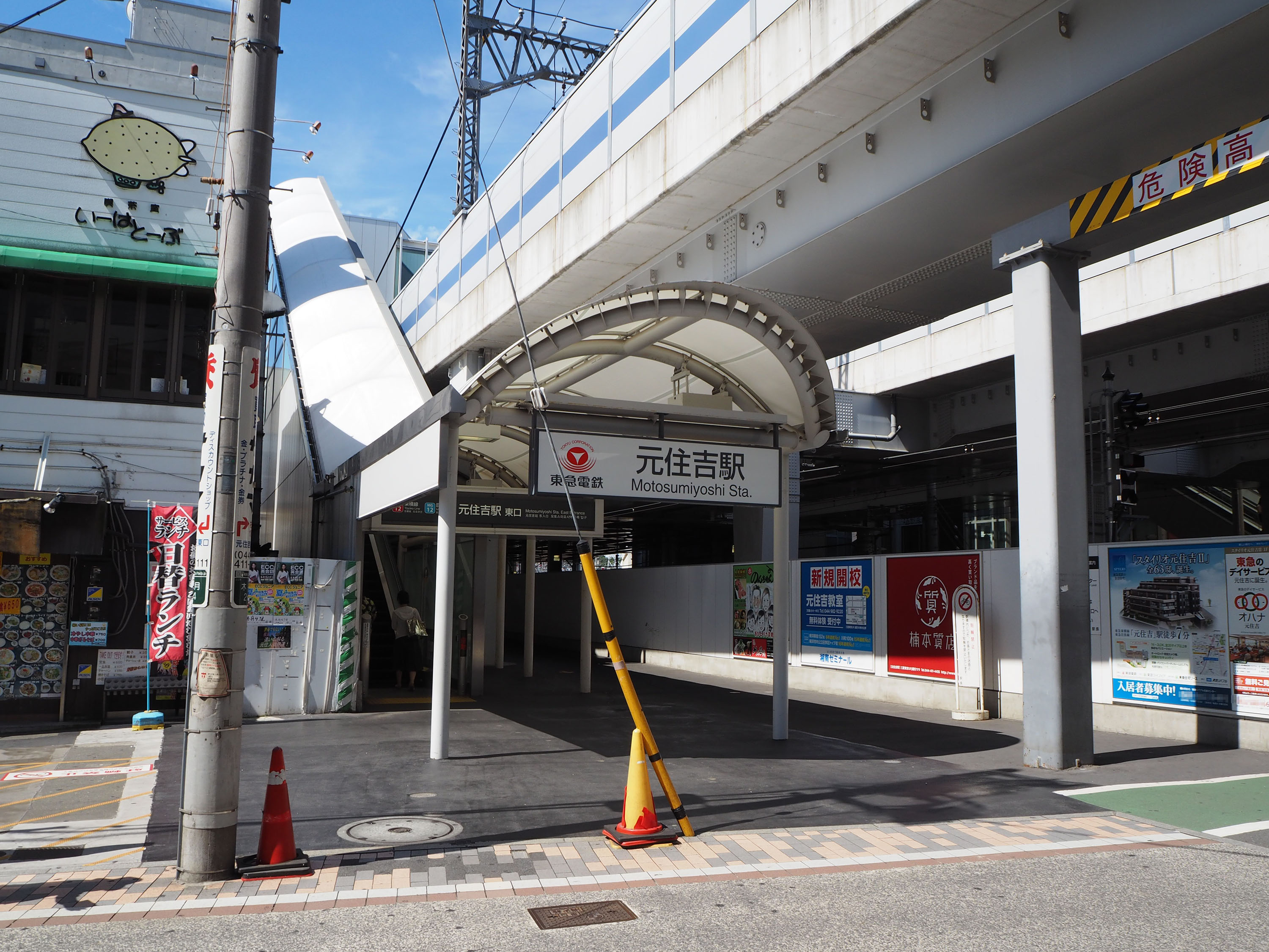 East Entrance of Motosumiyoshi Station